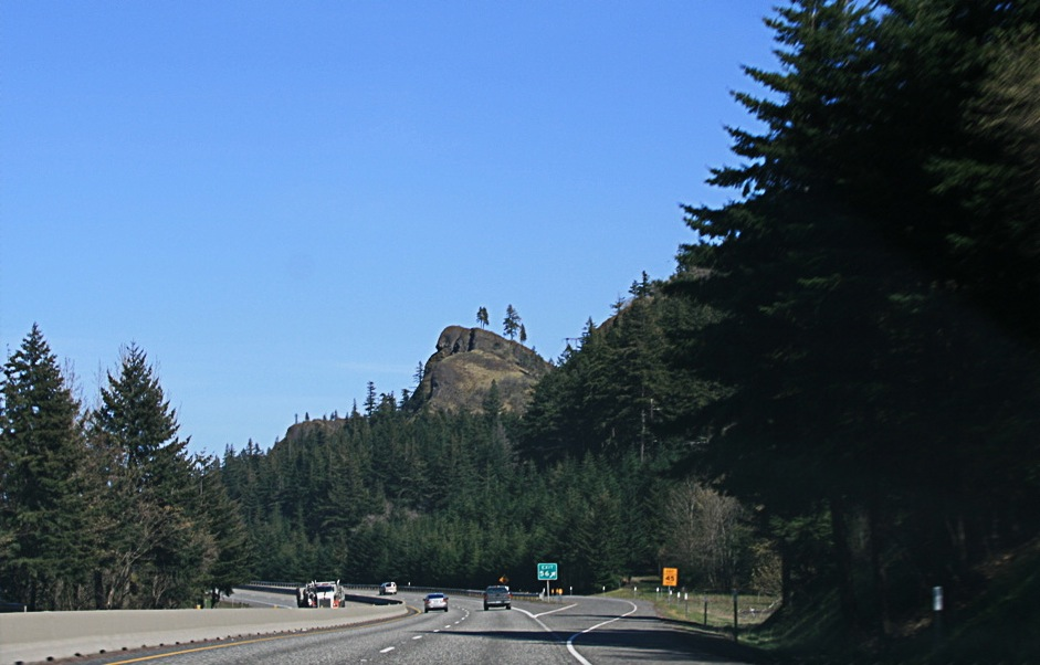 Mitchell Point in Oregon from I-84 Camera: Canon EOS Digital Rebel XTi License on Flickr (2011-01-24): CC-BY-2.0 Flickr tags: Mitchell Point, Columbia River Gorge, Drive By Shooting, AlohaOR, Aloha, Oregon